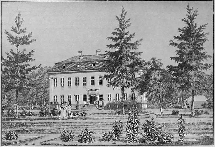 Charlottenlund Slot, Charlottenlund, north of Copenhagen, Denmark. Ca. 1830.